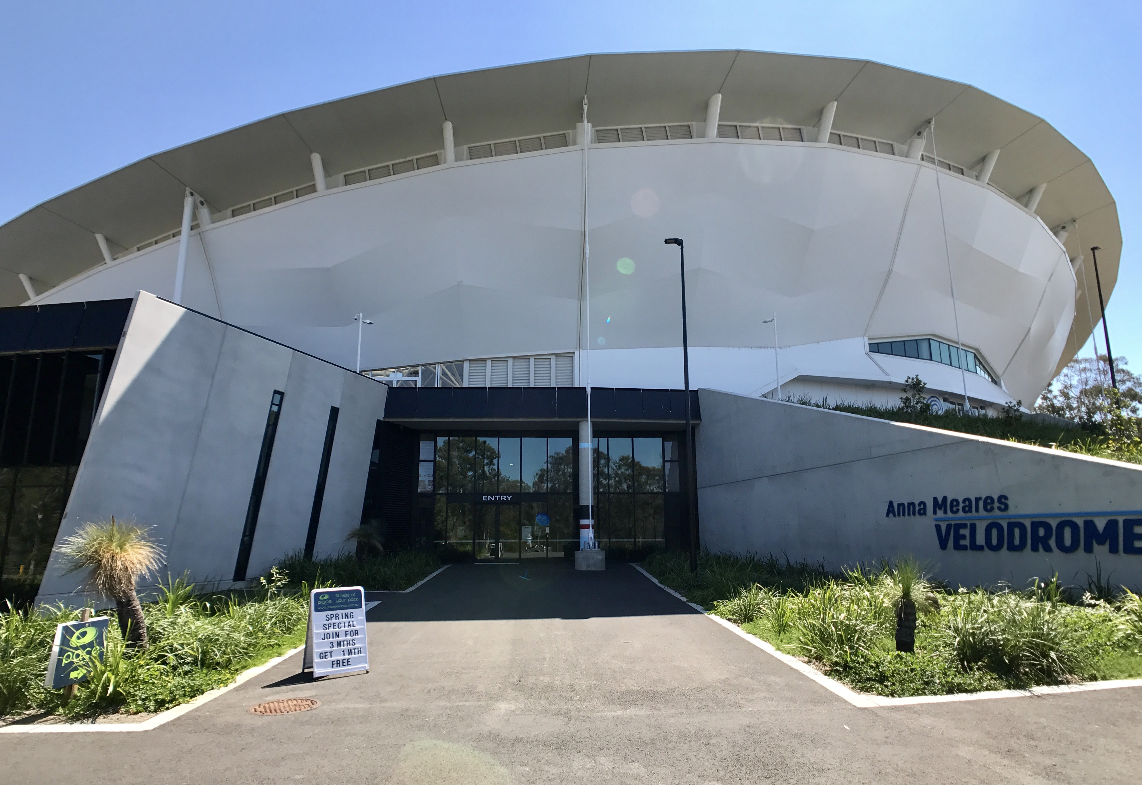 Anna Meares Velodrome, Brisbane, Queensland